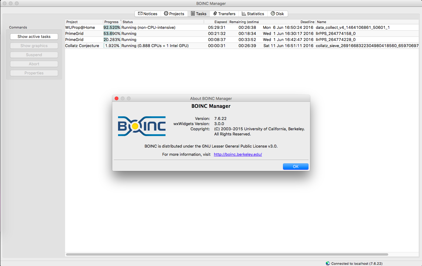 A screenshot of BOINC Manager's Tasks screen (plus the About window)